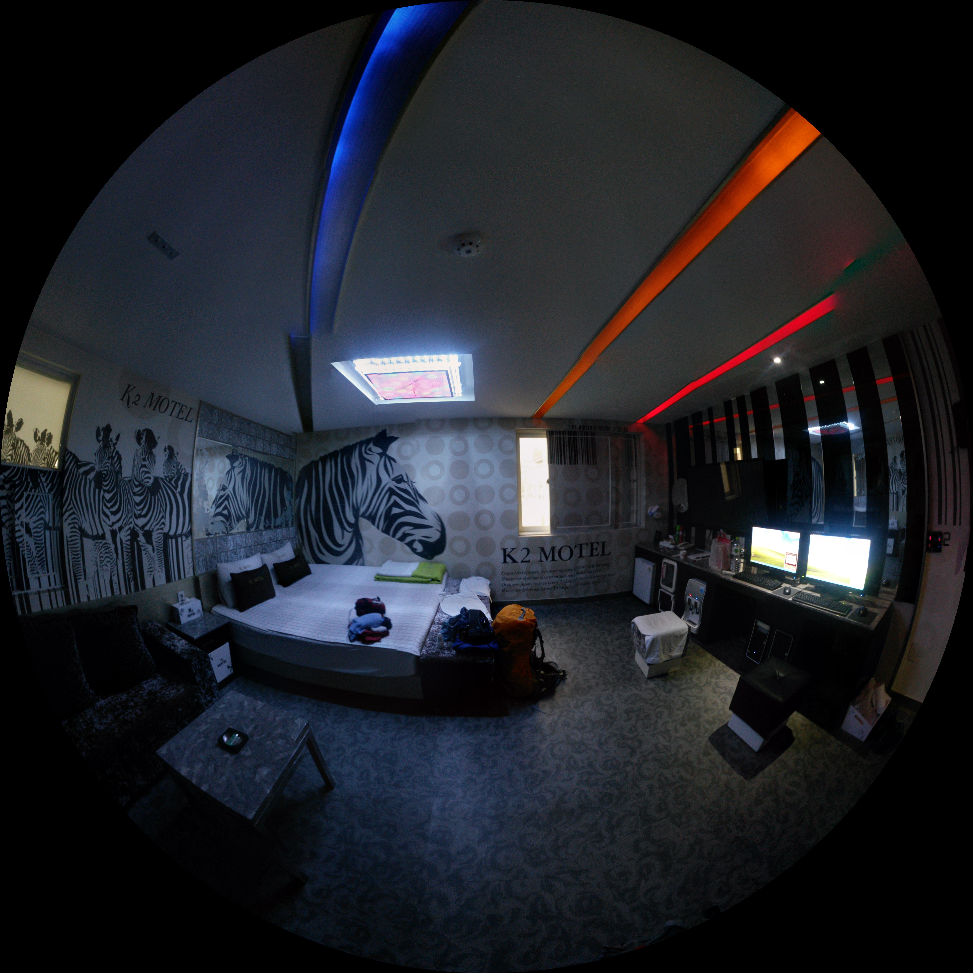 Fisheye-lens view of a room in the K2 motel in Busan, South Korea